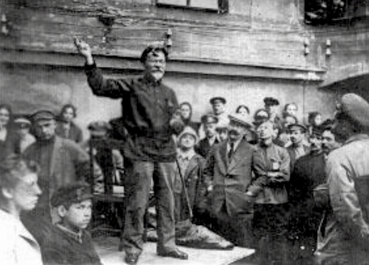 Mikhail Kalinin at a rally.